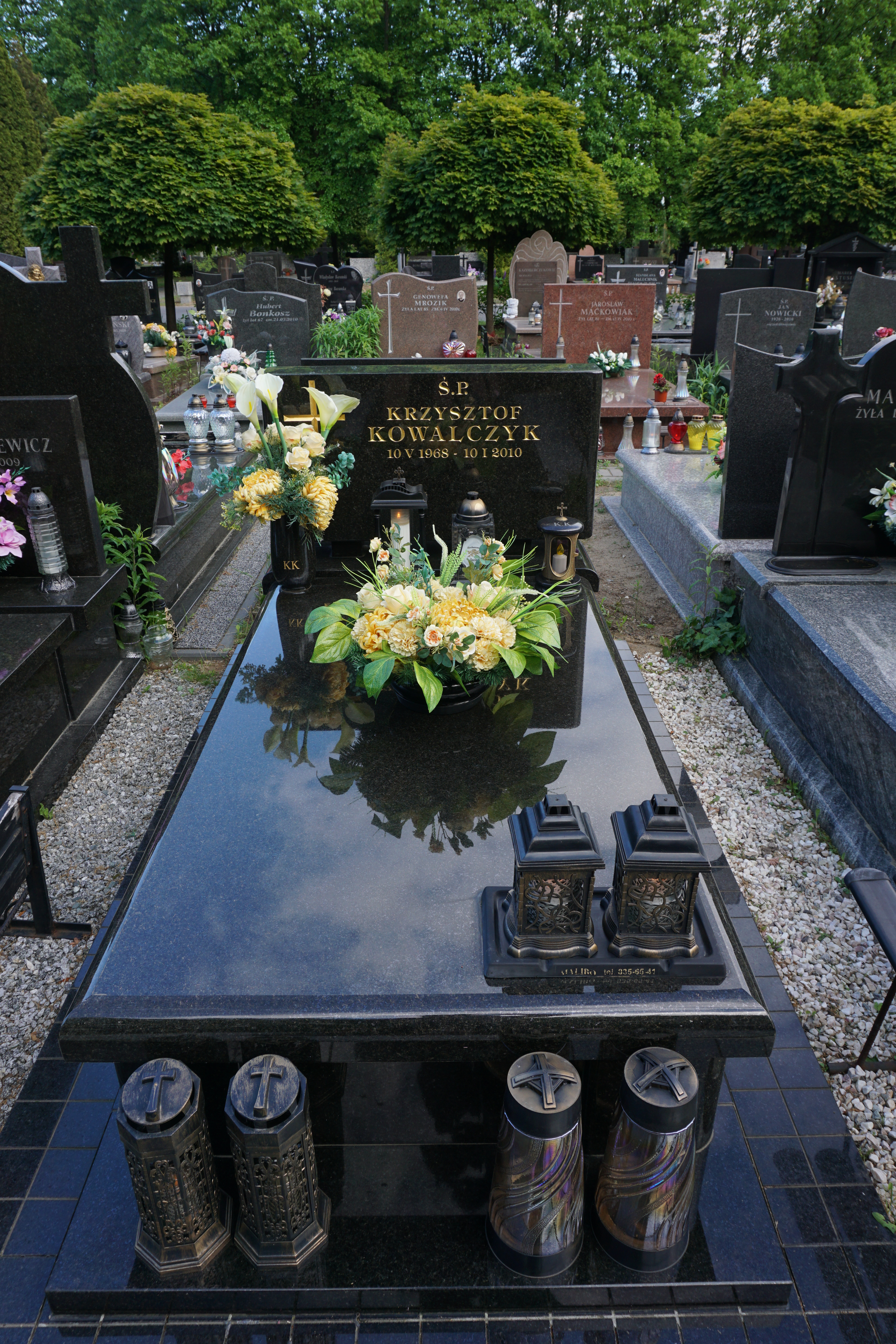 The grave of Krzysztof Kowalczyk at the North Municipal Cemetery in Warsaw (section B-IX-1, row 5, grave 5)